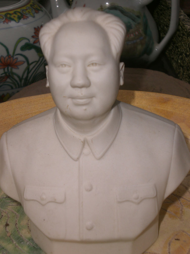 A second-hand product on sale at a market in Hong Kong.